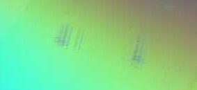 A Picture of scratches on the surface of a CD-R. Used in the CD-R article to illustrate scratches and damage to the discs.